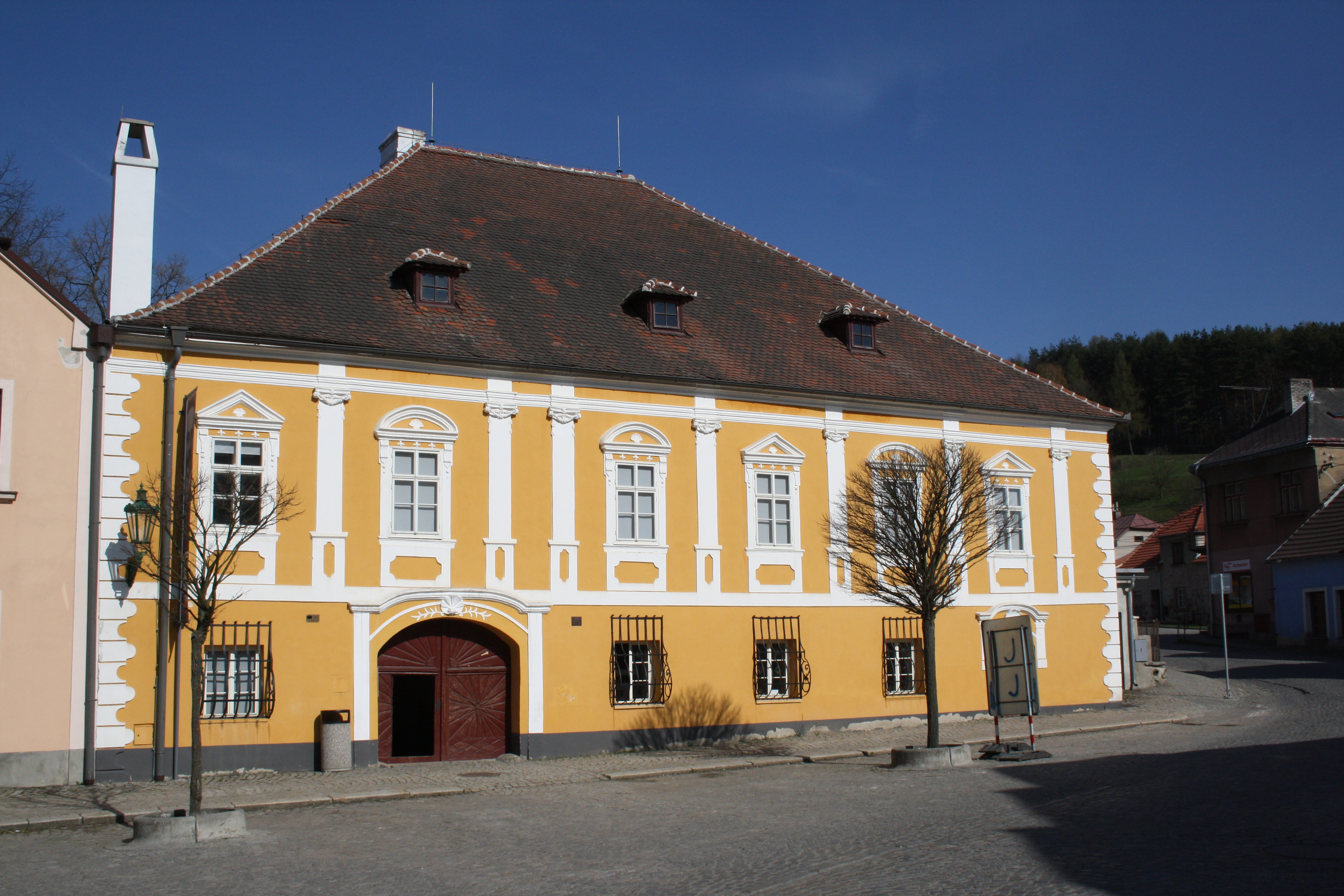 Museum of Josef Hoffmann in Brtnice, frontview.